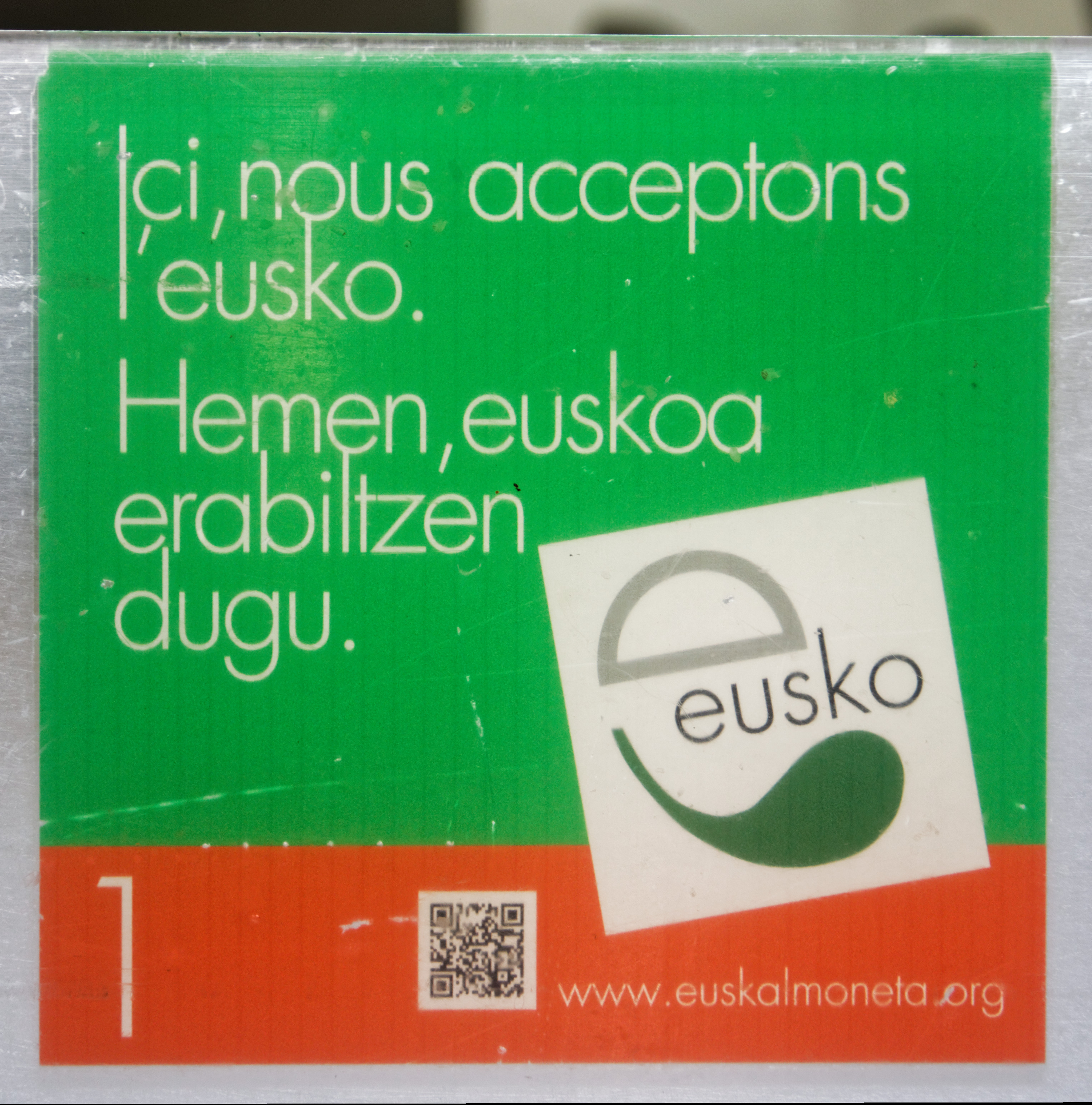 At these stalls, the fish always very fresh can be paid in Eusko.